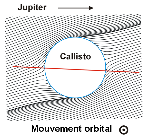 The image depicts magnetic field around Jovian moon Callisto. The field consists of the Jovian stationary field, Jovian varying field and Callisto induced field. The bending of the field lines around Callisto is evident, indicating an existence of an electrically conducting layer in the interior of the moon. The field lines shown in the image were calculated based on the magnetic field data available from the scientific literature.[1][2] The red line shows a trajectory of the Galileo spacecraft during a typical flyby (C3 or C10). This image was created for the Callisto article. ↑ Zimmer, C.; Khurana, K. K. (2000). "Subsurface Oceans on Europa and Callisto: Constraints from Galileo Magnetometer Observations". Icarus 147: 329–347. ↑ Kilveson, M.G.; Khurana, K.K.;Stevenson, D.J. (1999). "Europa and Callisto: Induced and intrinsic fields in a periodically varying plasma environment". J. of Geophys. Res. 104: 4609-4625.